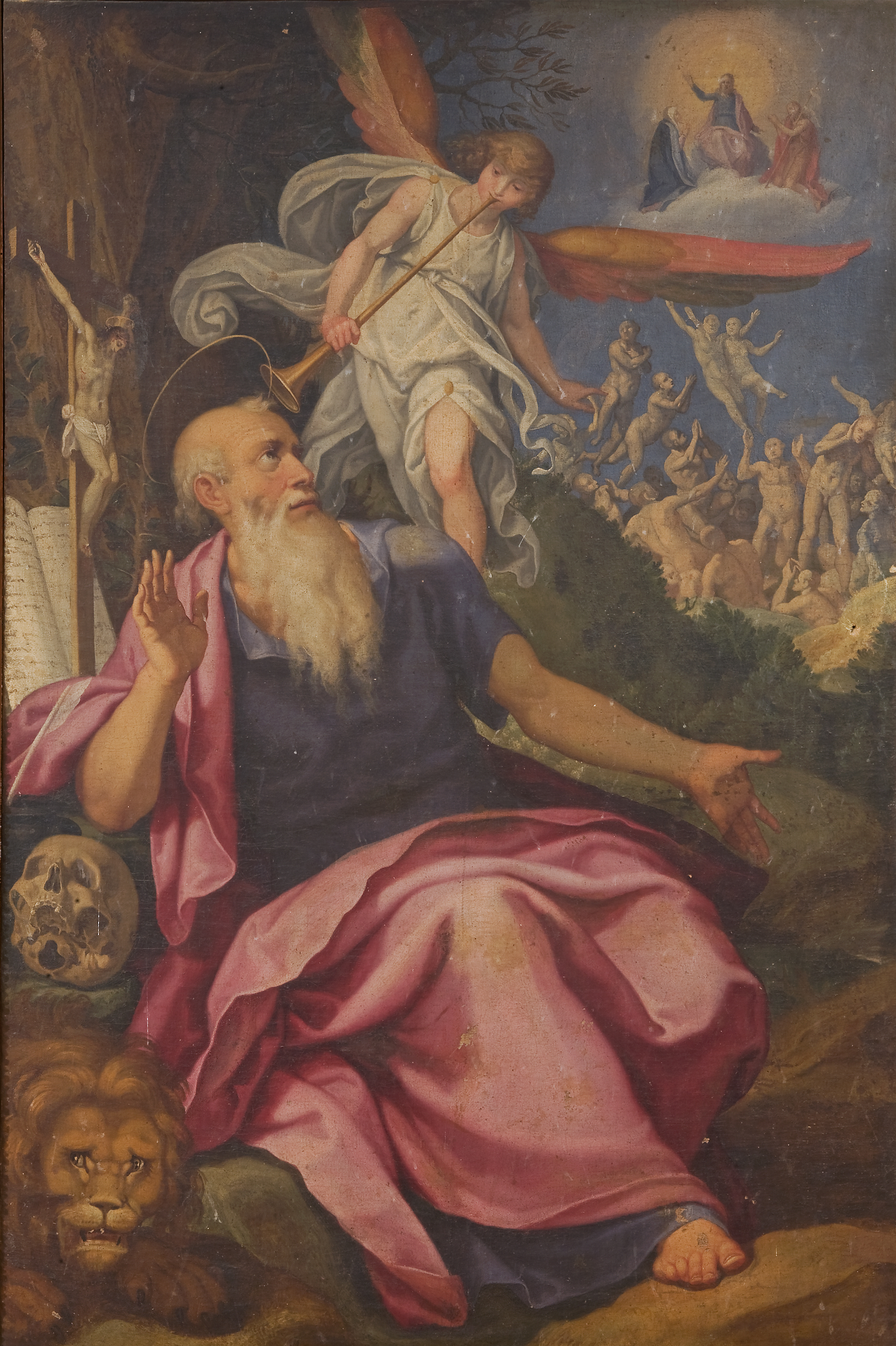 Pasquale Cati, S. Gerome and the trumpet of the last judgement, oil on canvas, cm. 162 x 108 c/o Bigli Art Broker Milan